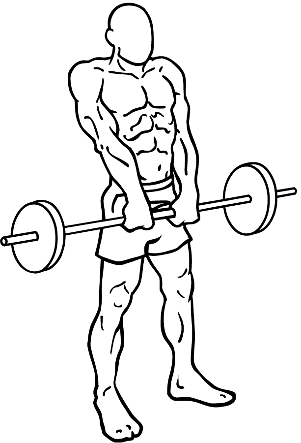 an exercise of traps